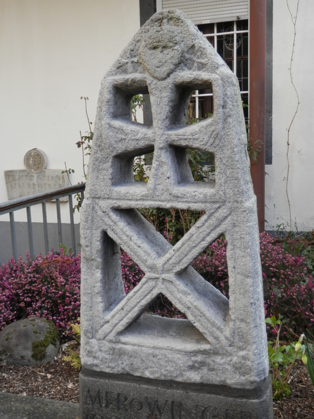 Merowinger Cross, Moselkern